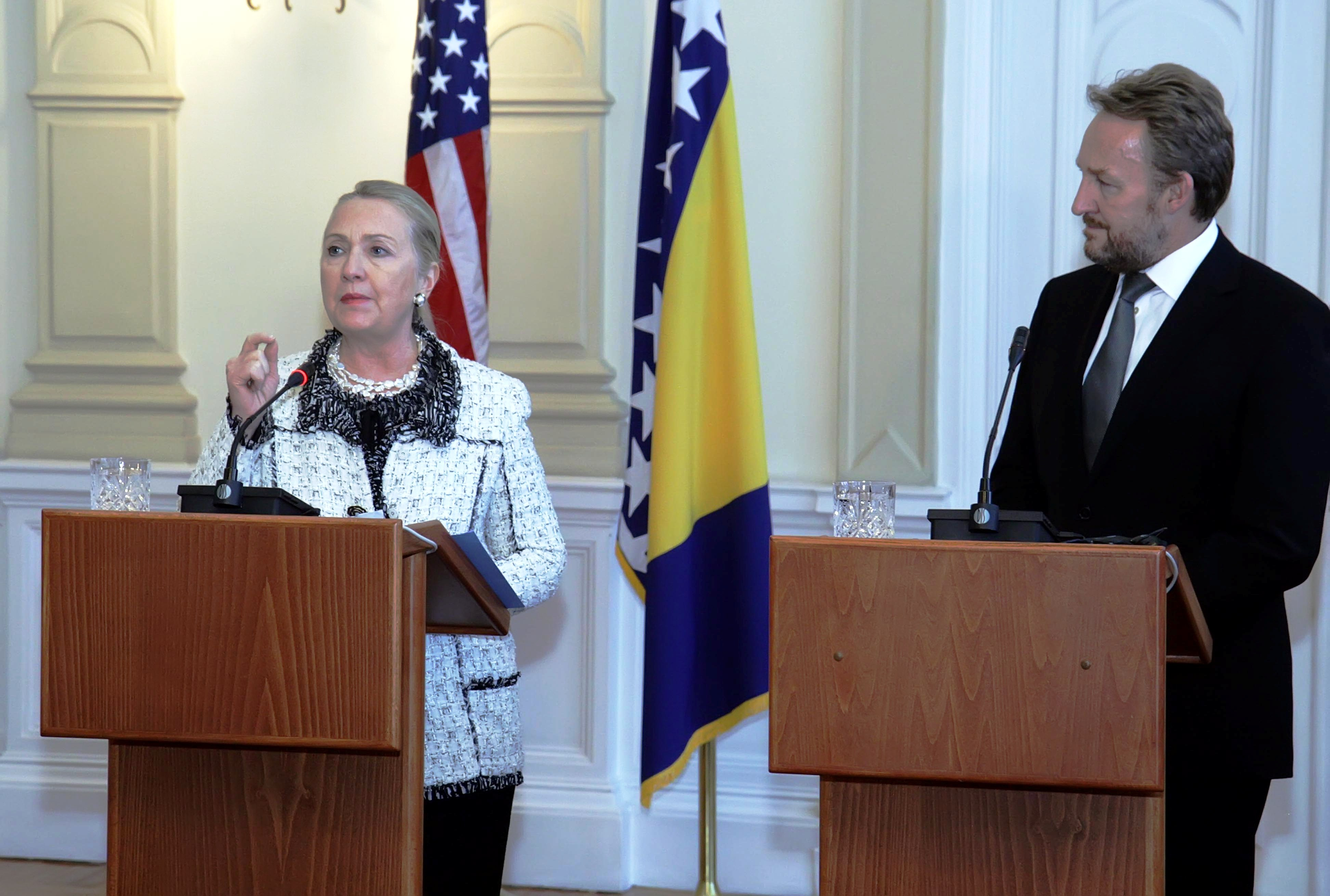 U.S. Secretary of State Hillary Rodham Clinton and Bosnian Presidency Chairman Bakir Izetbegovic address reporters in Sarajevo, Bosnia and Herzegovina, October 30, 2012. [State Department photo/ Public Domain]